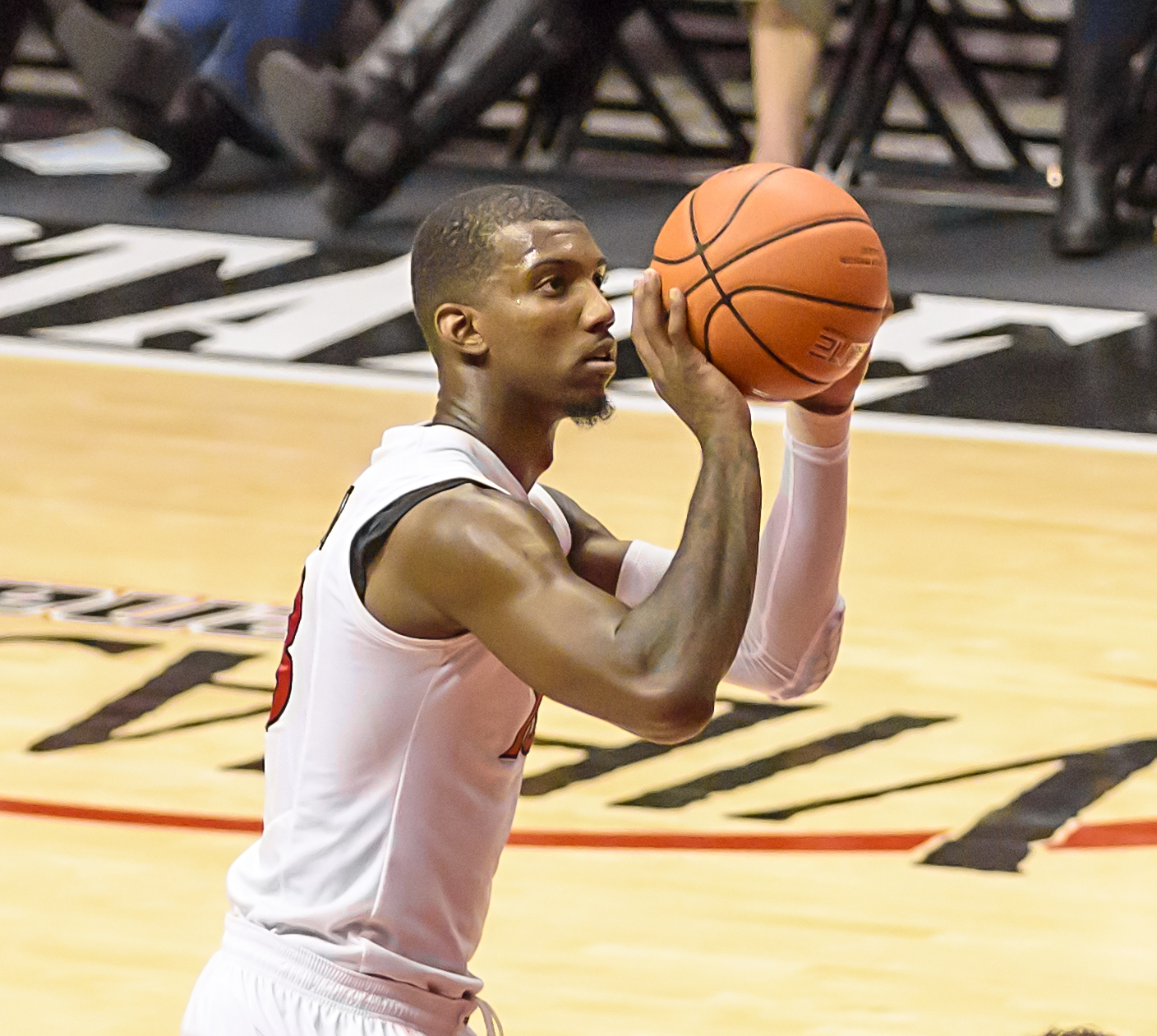 Winston Shepard, college basketball player for the San Diego State Aztecs on Dec 10, 2014